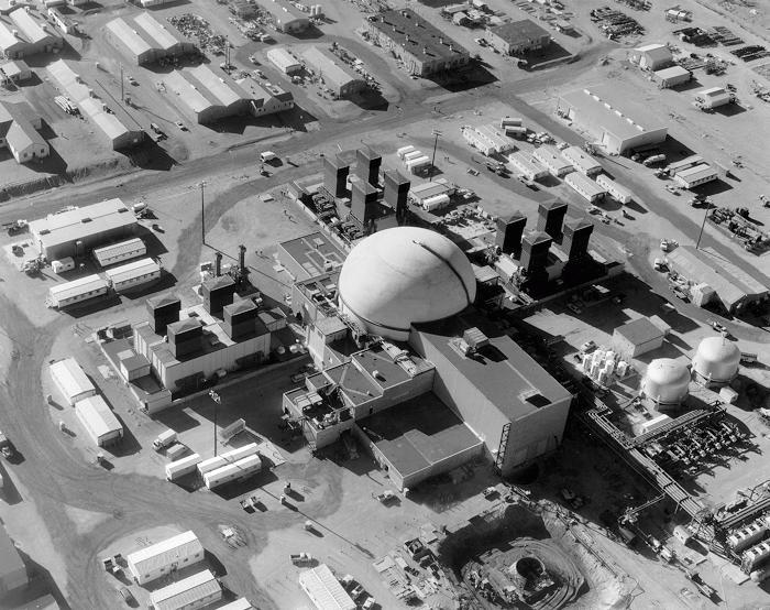 Picture of the FFTF facility at US DOE Hanford, Description from : Hanford Site Fast Flux Test Facility (FFTF) Photo Date: 09 November 1978 Photo Number: 094 005 001 The Fast Flux Test Facility (FFTF), located on the Hanford Site in eastern Washington, is a 400-megawatt thermal reactor cooled by liquid sodium. It was built in 1978 to test plant equipment and fuel for the U.S. Government's liquid metal reactor development program. Although the FFTF is not a breeder reactor, this program demonstrated the technology of commercial breeder reactors.